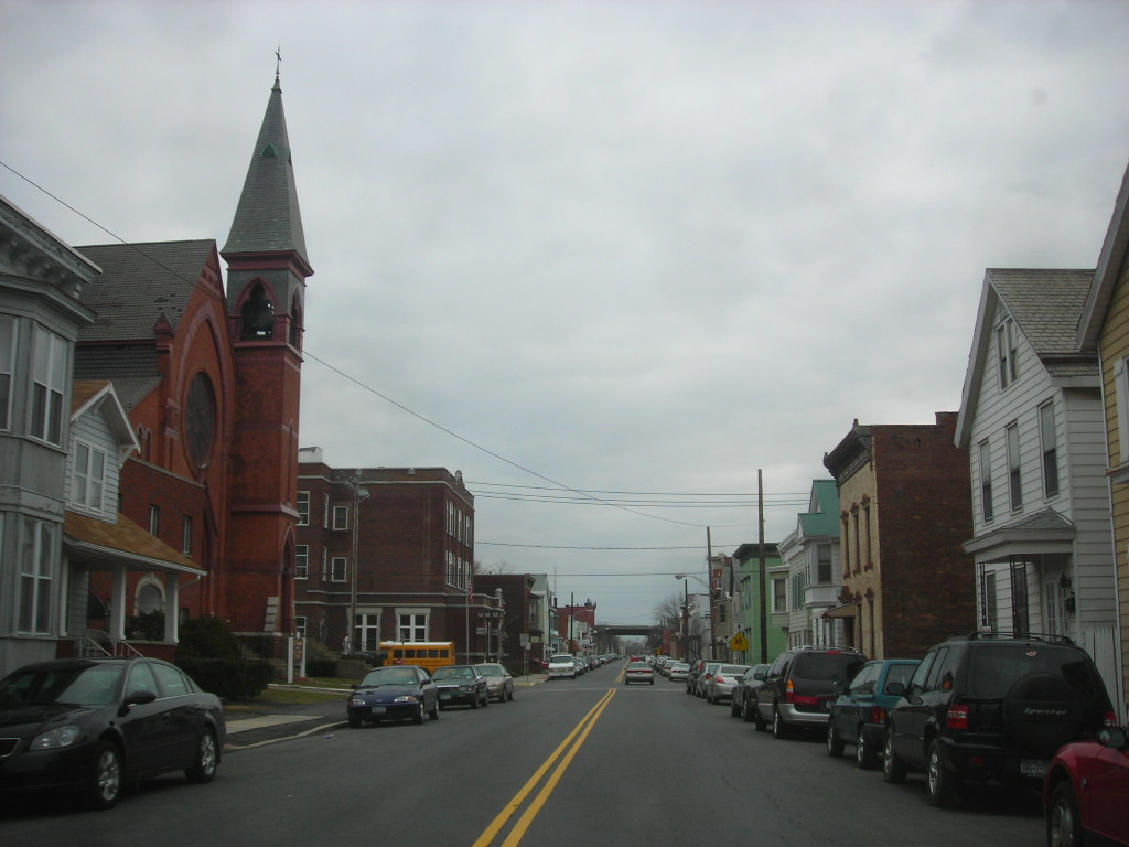 Green Island, New York. Hudson Avenue facing south, from near intersection with Bleeker Street see below for correction